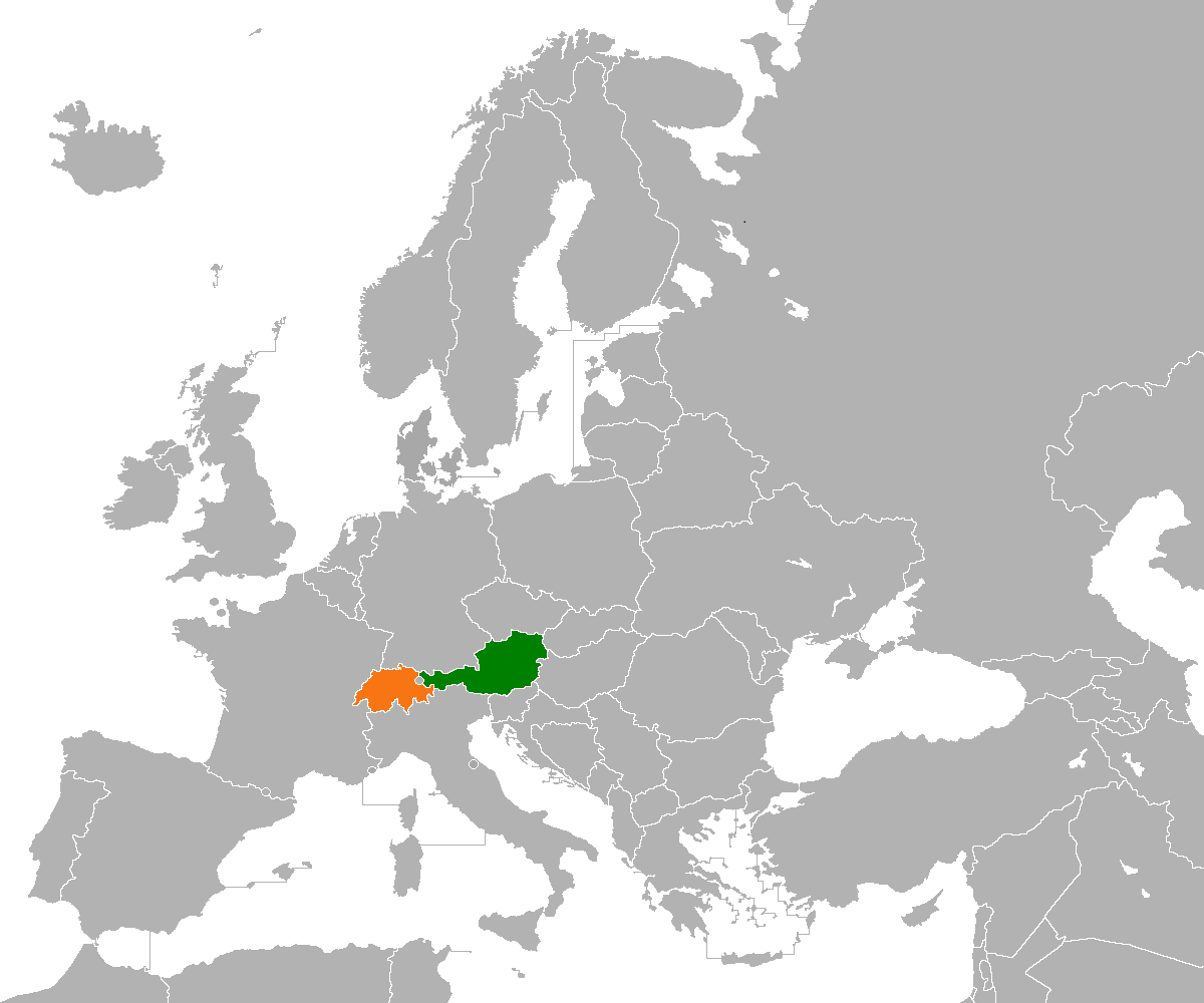 Austria Switzerland locator map